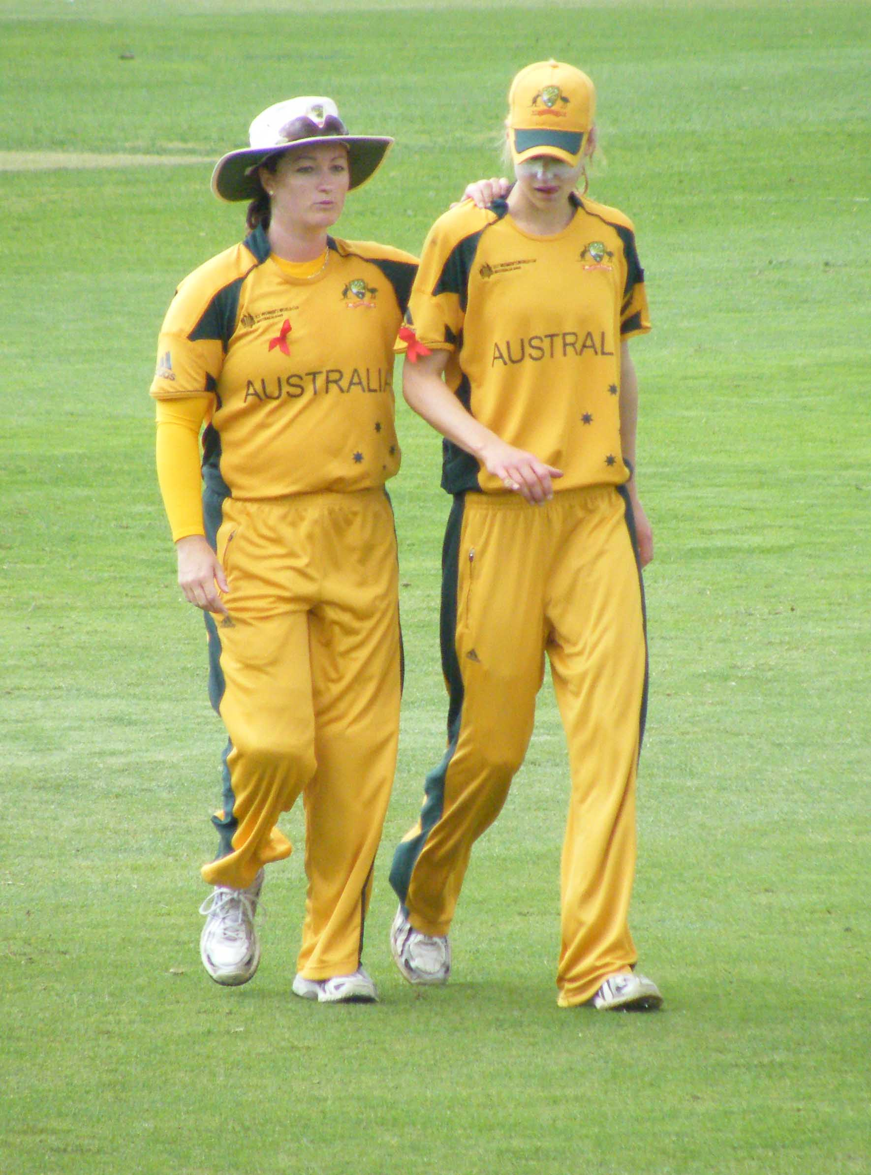 Karen Rolton and Elyse Perry of Australia - ICC Womens Cricket World Cup - Sydney, March 2009.